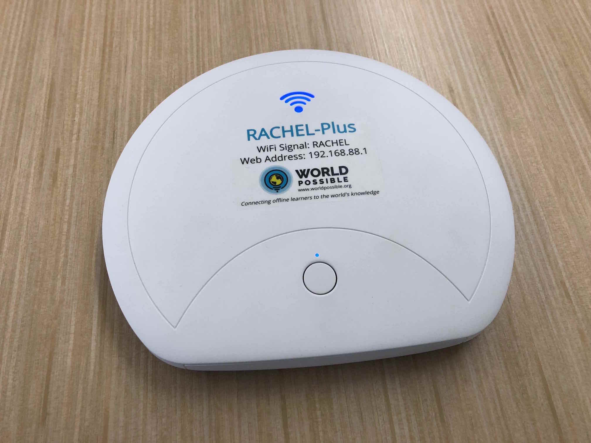 Photo of Remote Area Community Hotspot for Education & Learning (RACHEL) by World Possible